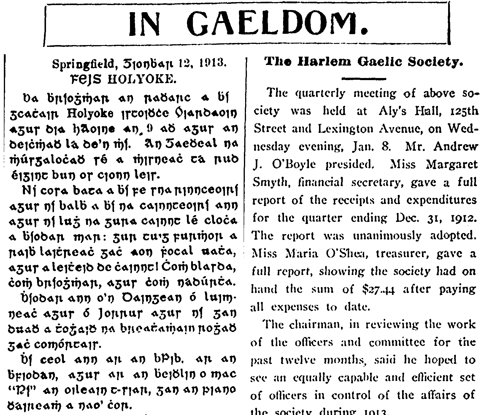 A report on a feis in Holyoke, Massachusetts printed in Gaelic script alongside a report on the Harlem Gaelic Society, printed in 1913